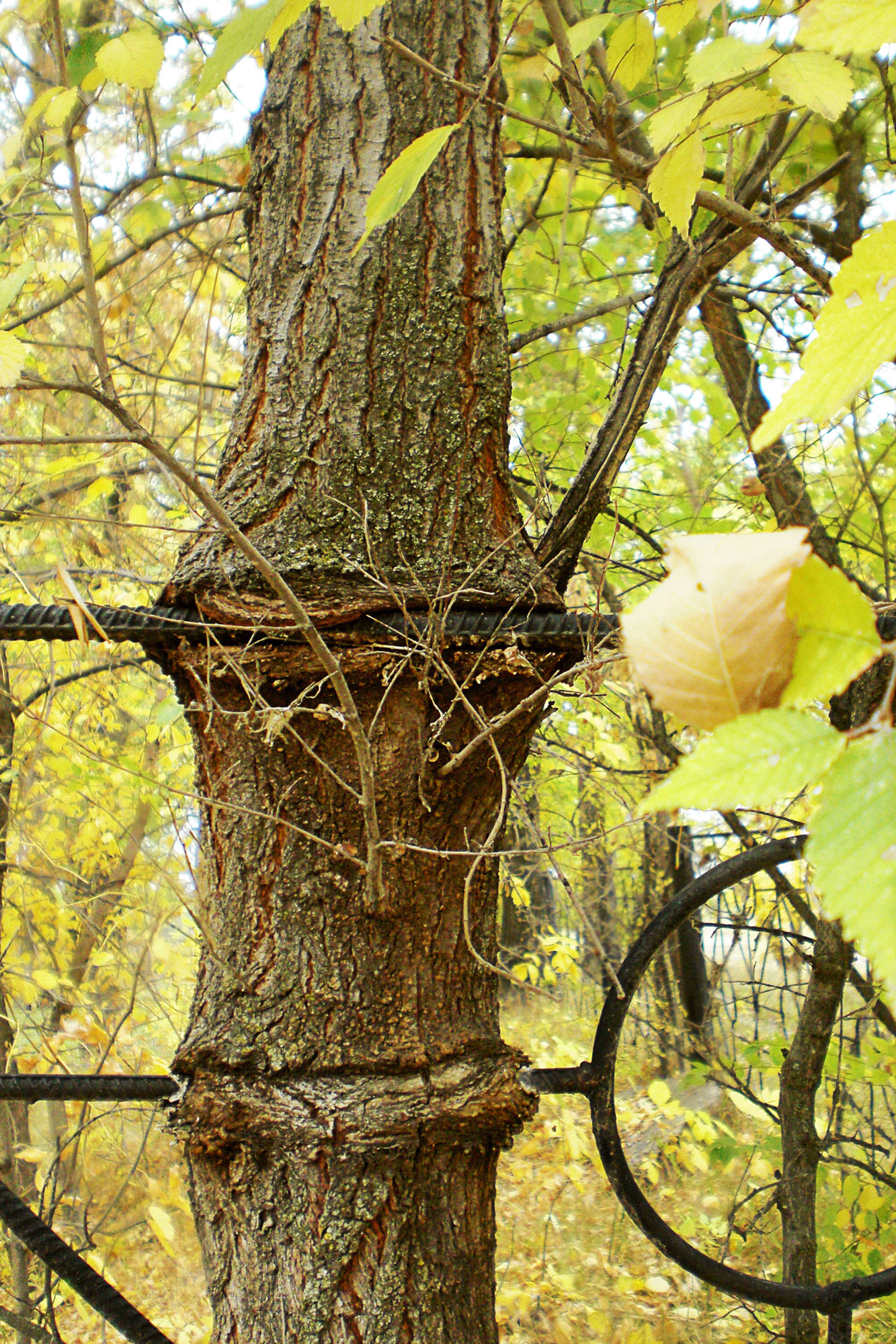 automn in Akhtubinsk